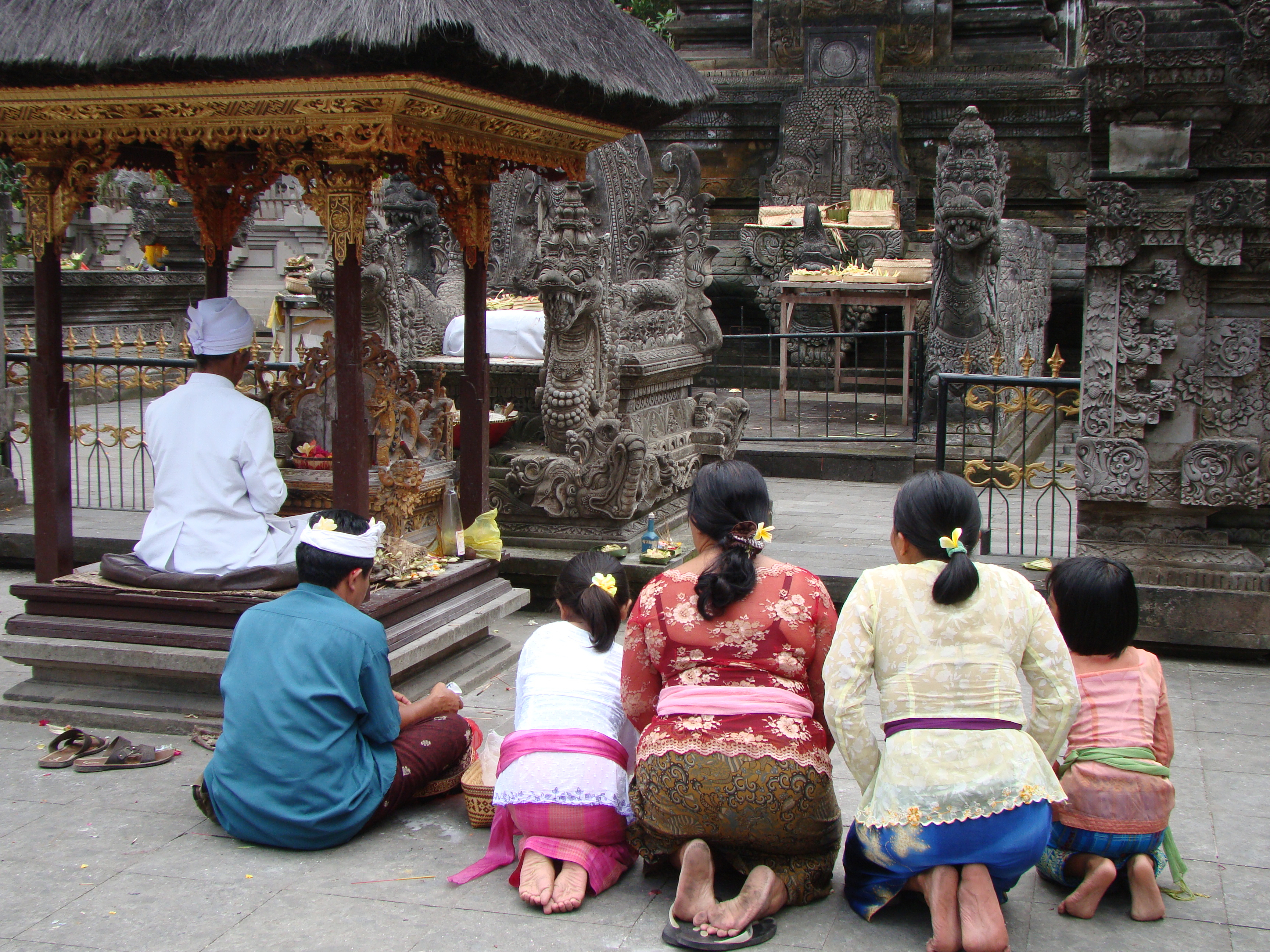 Puja are offered at cremation ceremony. Above a family puja at a Hindu Temple in Bali, Indonesia. Hinduism Ubud, Bali, Indonesia